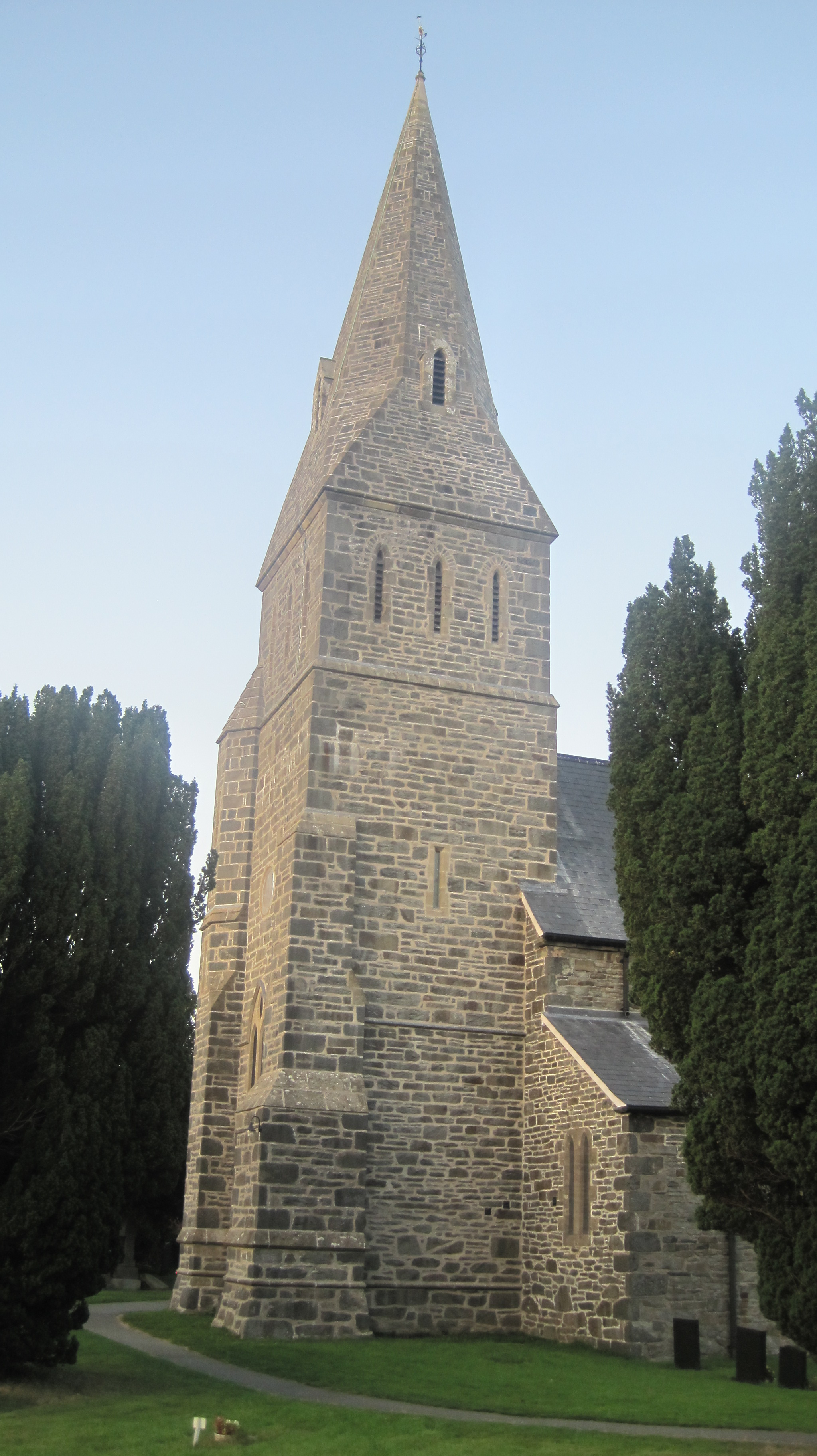 Christ Church, Bala, Gwynedd North Wales